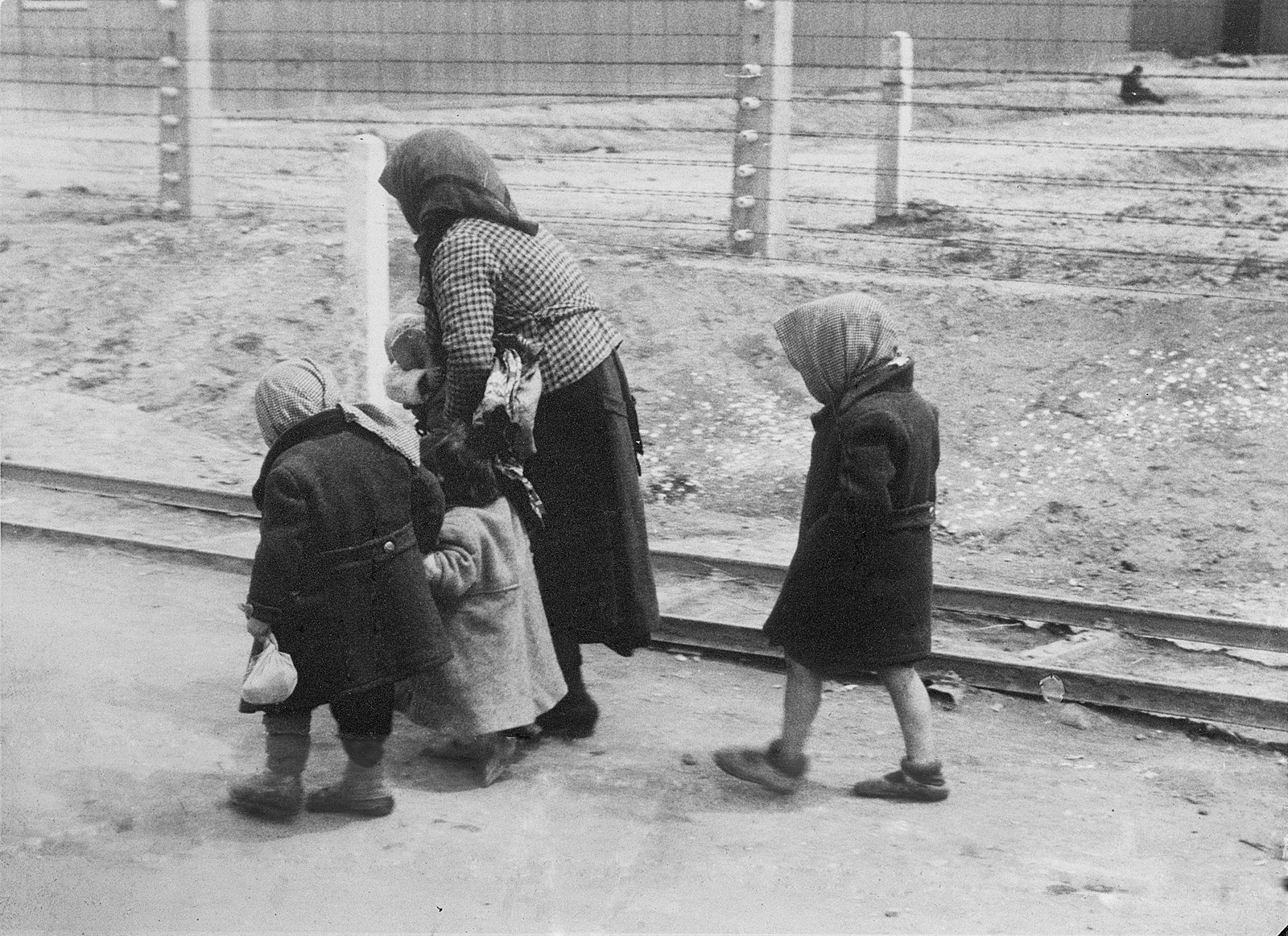 Woman with children in Auschwitz II in German-occupied Poland during World War II and the Holocaust. The photograph is part of the Auschwitz Album; see Yad Vashem. English translation of the German description: "Documentary photos of Eichmann's crimes, murderer of the Jews. Eichmann and his officers were responsible for the murder of most of the Jewish population in the ghettos of the territory of Czechoslovakia, and for the transport of countless Jewish men, women and children of different nationalities to the extermination camps, for example Auschwitz-Birkenau. The documentary photos are part of the pictures from SS-Mann Bernhard Walter (from North Bohemia) and were admitted by Eichmann. Fascist criminals like Eichmann did not even halt for the elderly or children. Here, children and an old woman are on the way to the death barracks of Auschwitz-Birkenau."